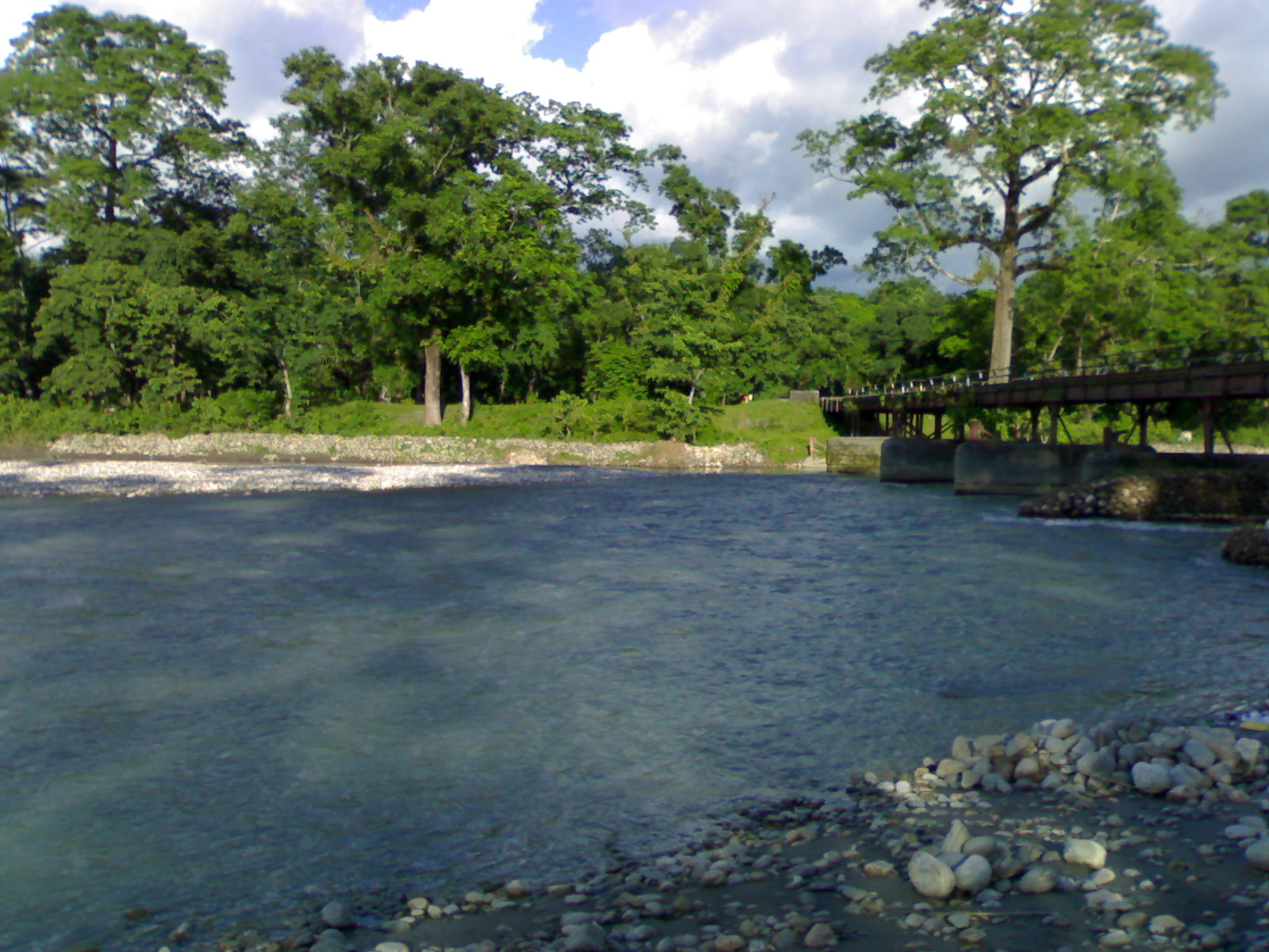 Murti River and forest in Dooars, Jalpaiguri, West Bengal.